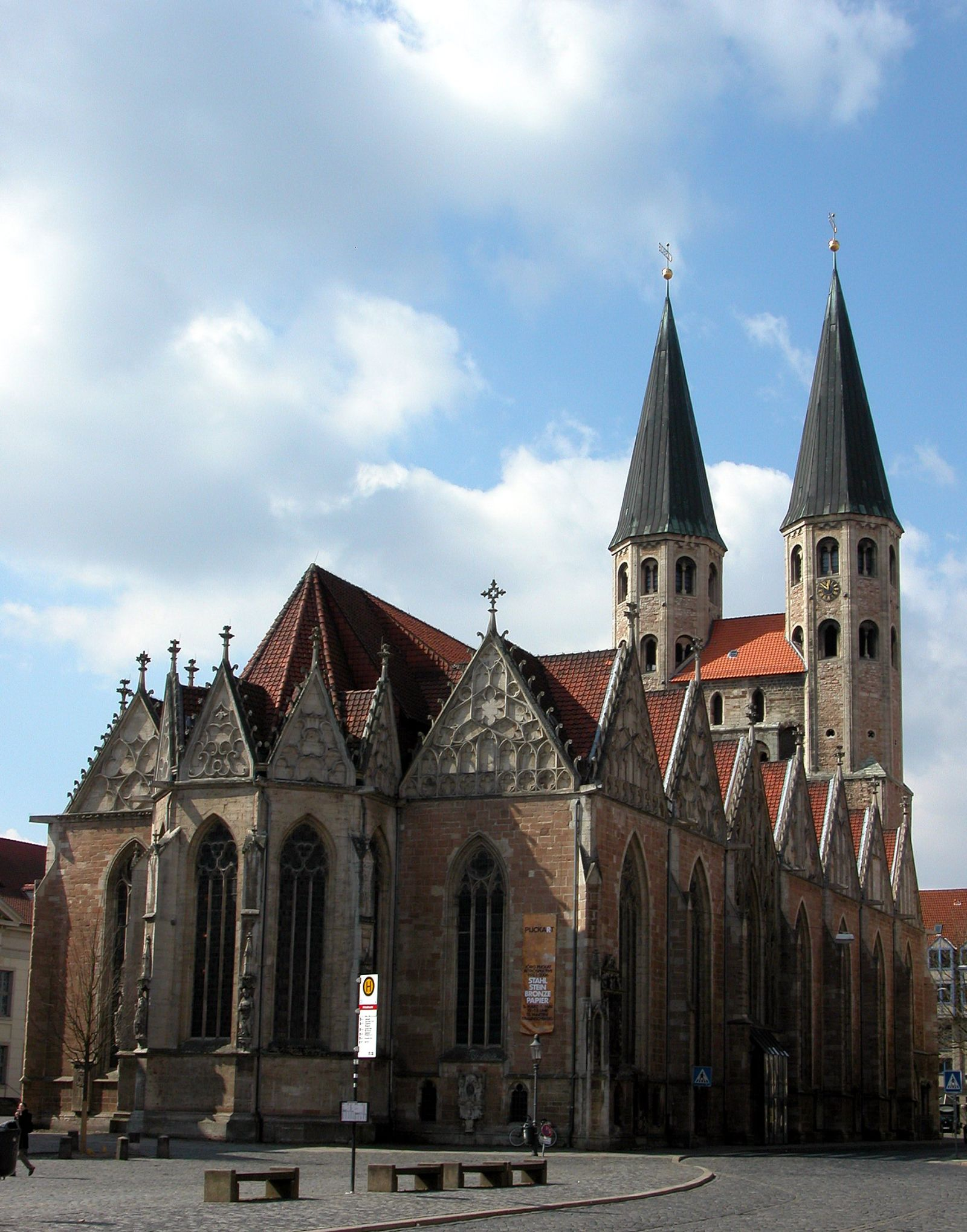 Brunswick, Germany: St. Martin’s as seen from the northeast.